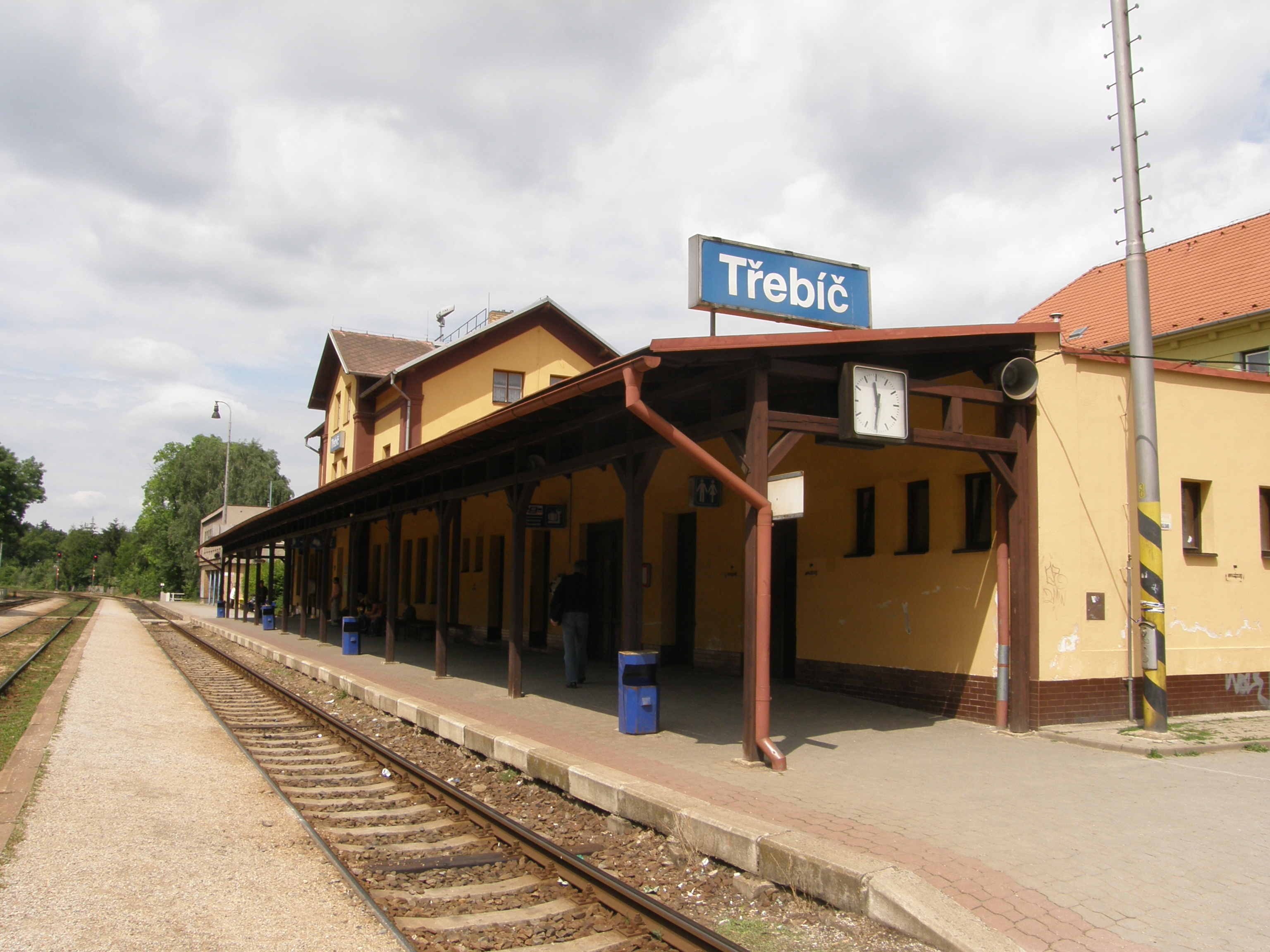 Train station in Třebíč